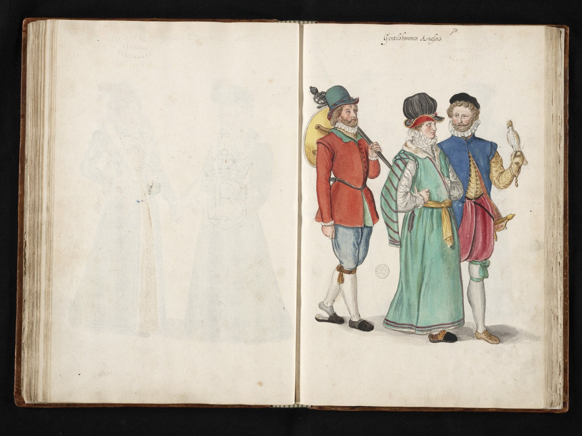 Servant with pattens, rotella shield and sword escorts his master. Lucas de Heere paints